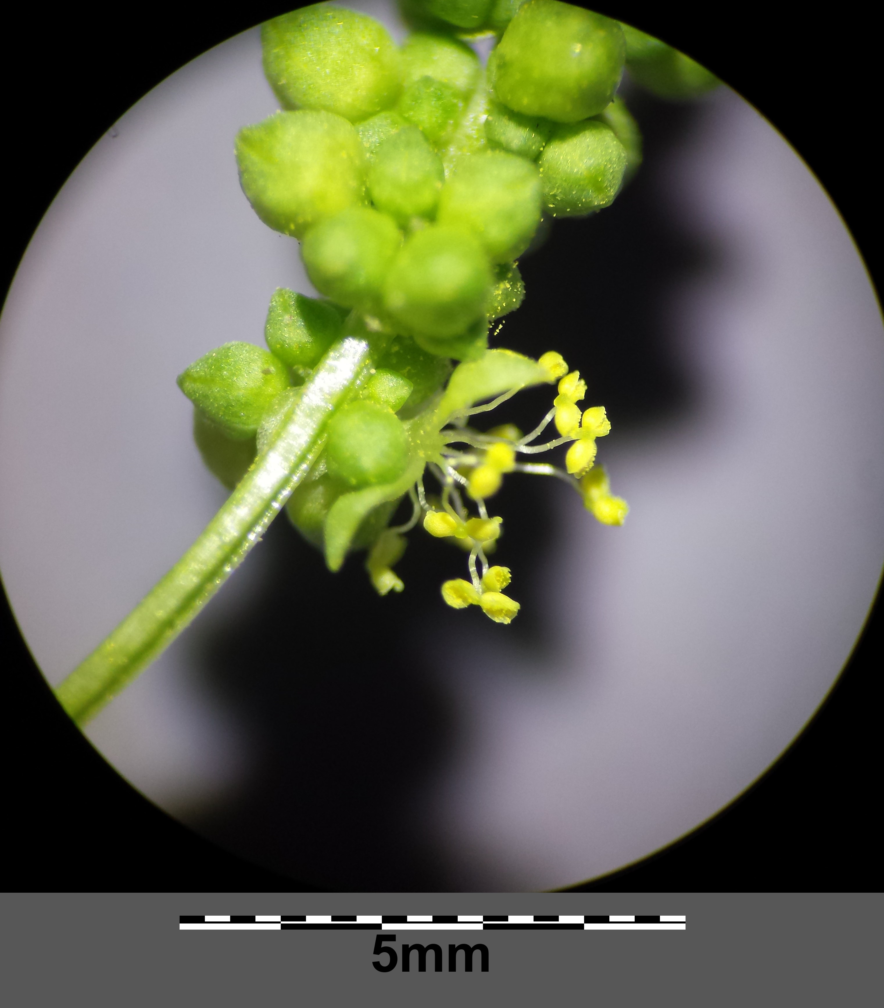 Inflorescence (♂ plant) Taxonym: Mercurialis annua ss Fischer et al. EfÖLS 2008 ISBN 978-3-85474-187-9 Location: near Niederhollabrunn, district Korneuburg, Lower Austria - ca. 325 m a.s.l. Habitat: wine yard